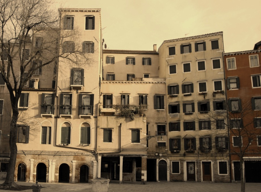 The ancient Jewish Bank in the Old Ghetto of Venice, Italy.